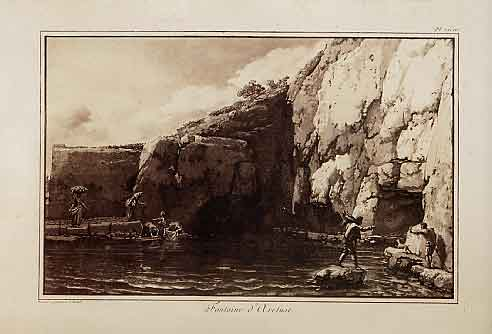 Jean Houel, Aretusa's spring in Syracuse in 1785.